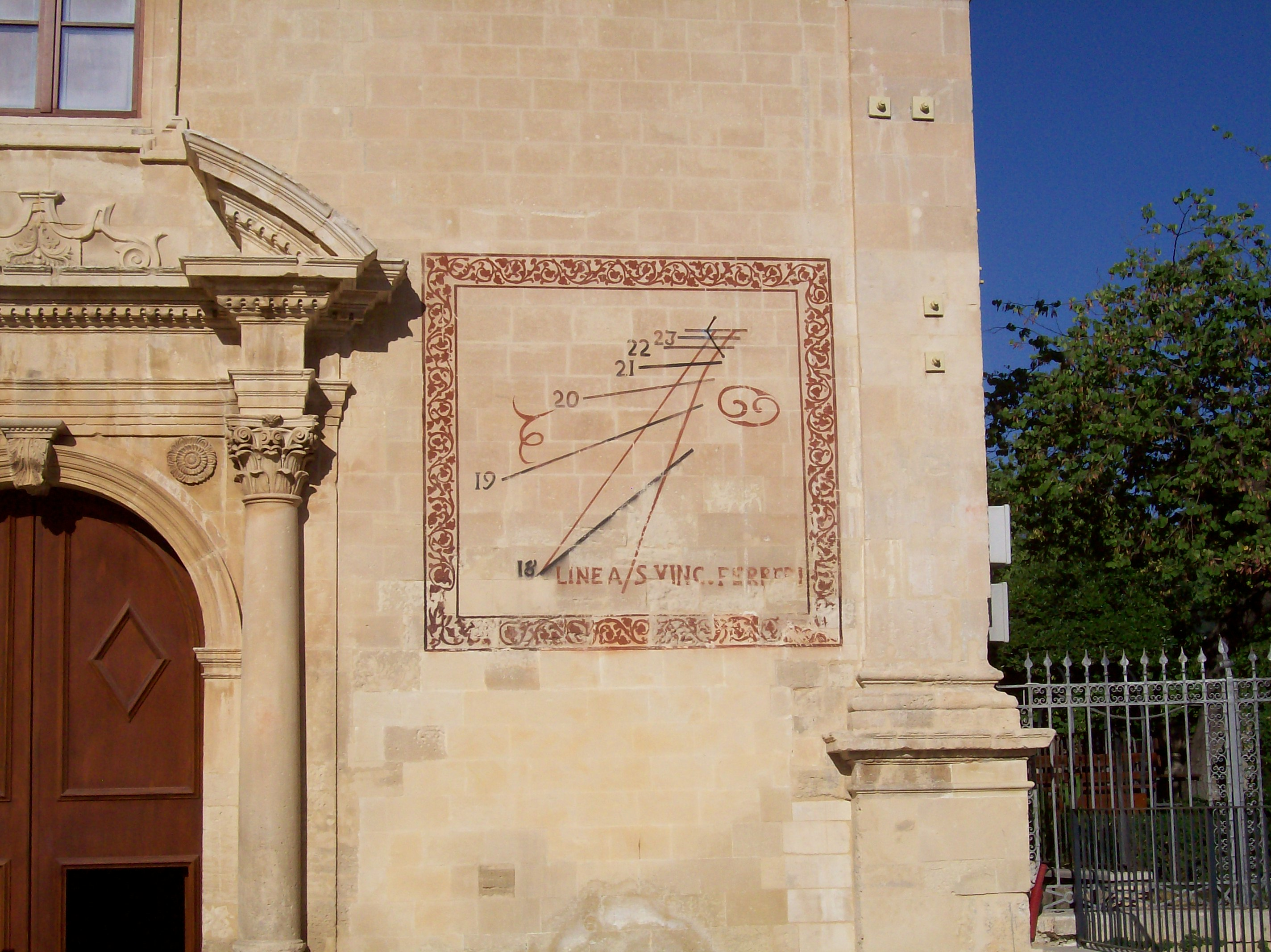 Sun dial at San Vincenzo Ferreri church in Ragusa.